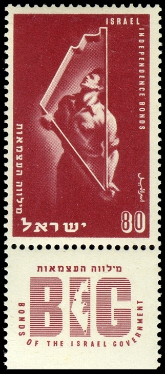 Independence Bonds stamp - 80 mil.